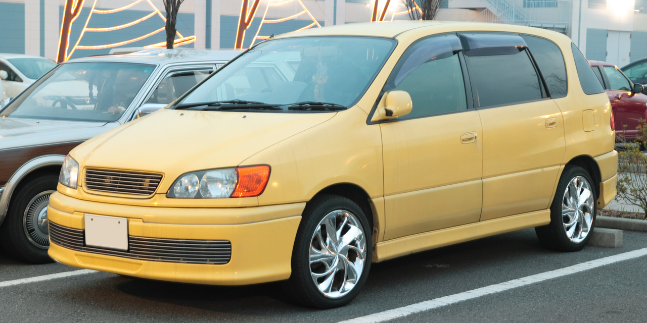 Toyota Ipsum ( SXM10G ) American Billet